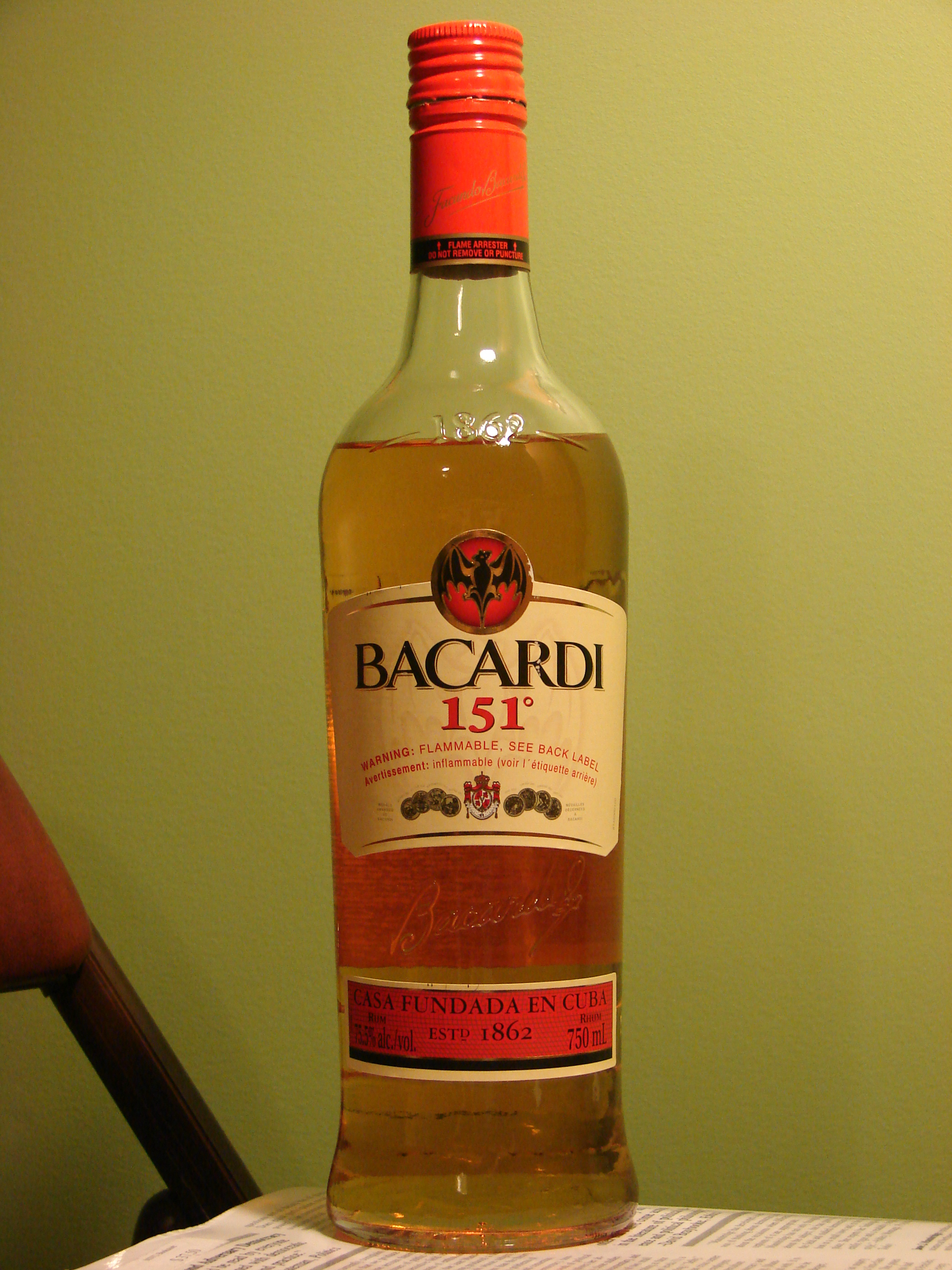 Bacardi 151 overproof rum, 75.5% alcohol, 750 mL bottle, from Puerto Rico, purchased in Canada for $35. Rhum